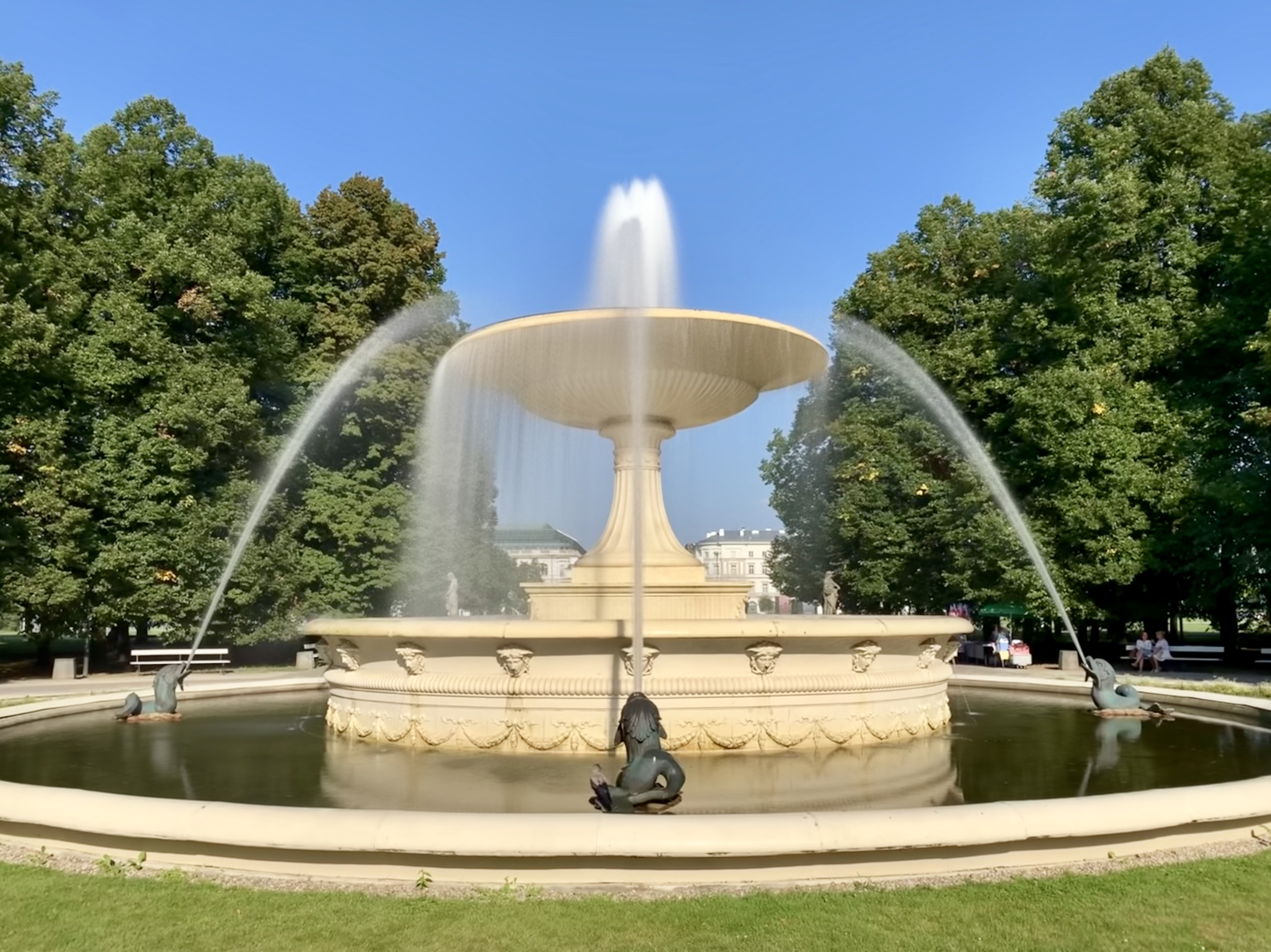 Saxon Garden Fountain, Warsaw, Poland